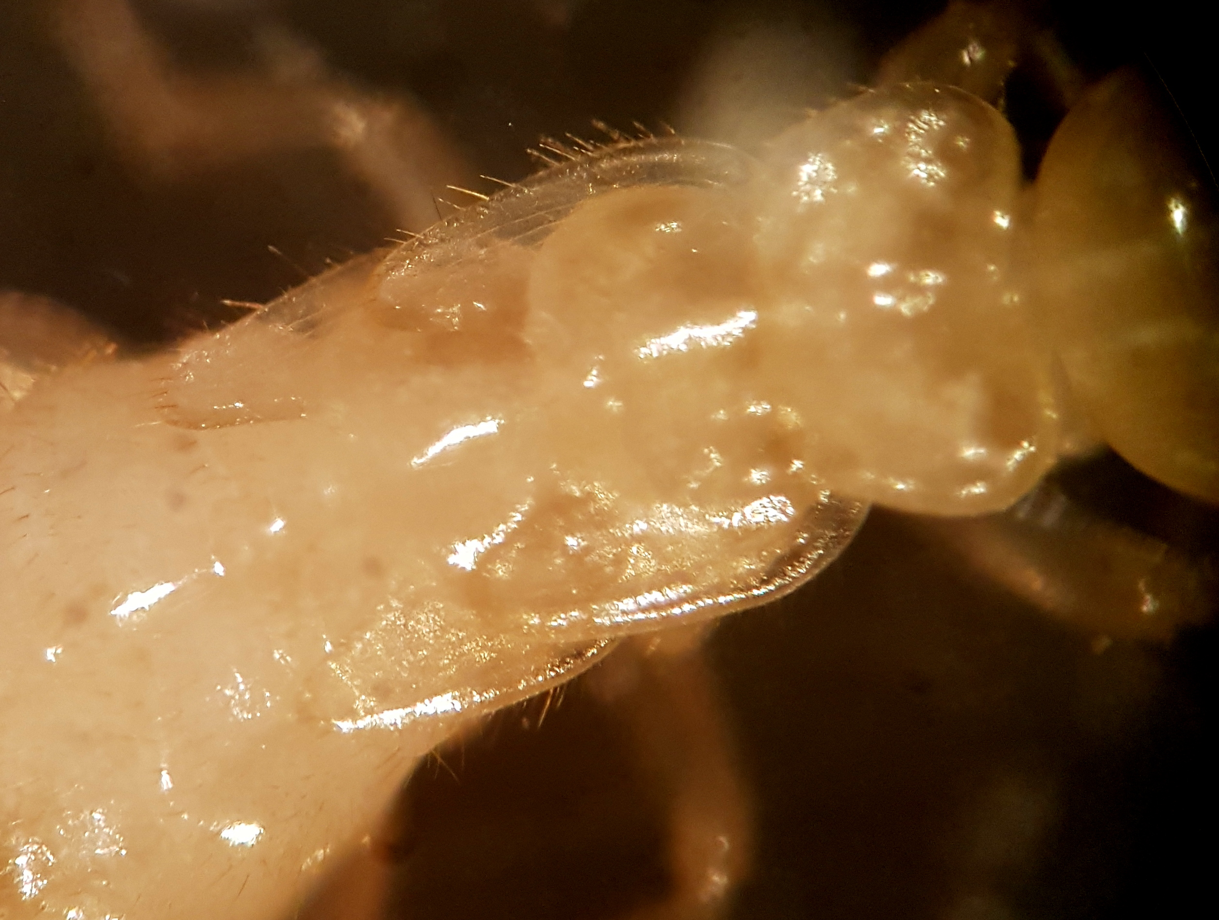 Photographed through a stereo microscope. This individual was part of a captive colony originally collected in France.